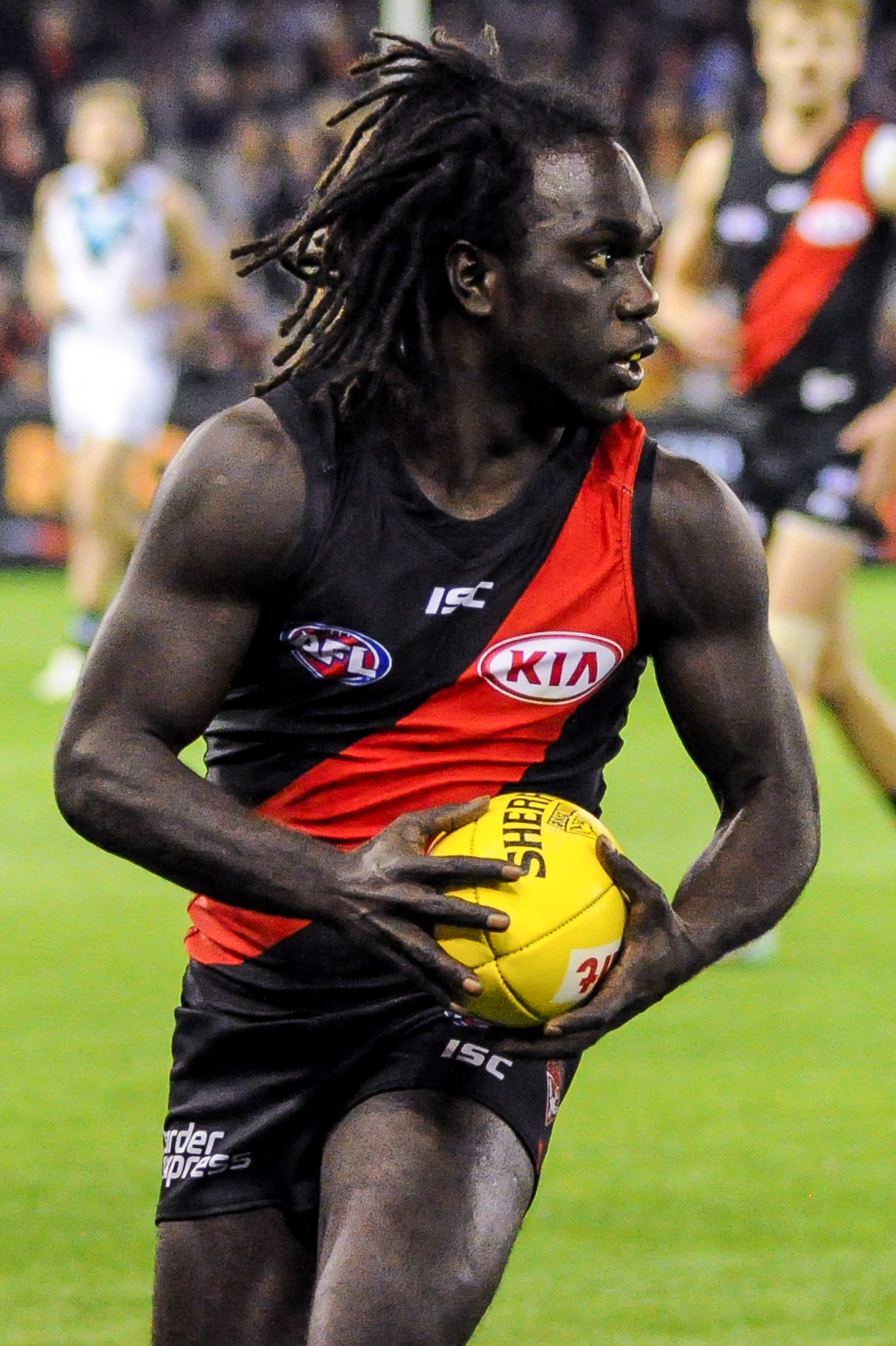 Anthony McDonald-Tipungwuti during the AFL round twelve match between Essendon and Port Adelaide on 10 June 2017 at Etihad Stadium in Melbourne, Victoria.